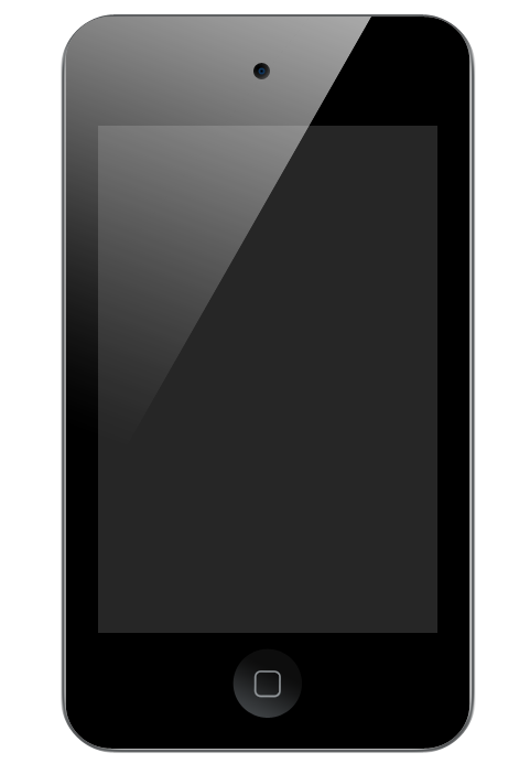 iPod touch 4th generation